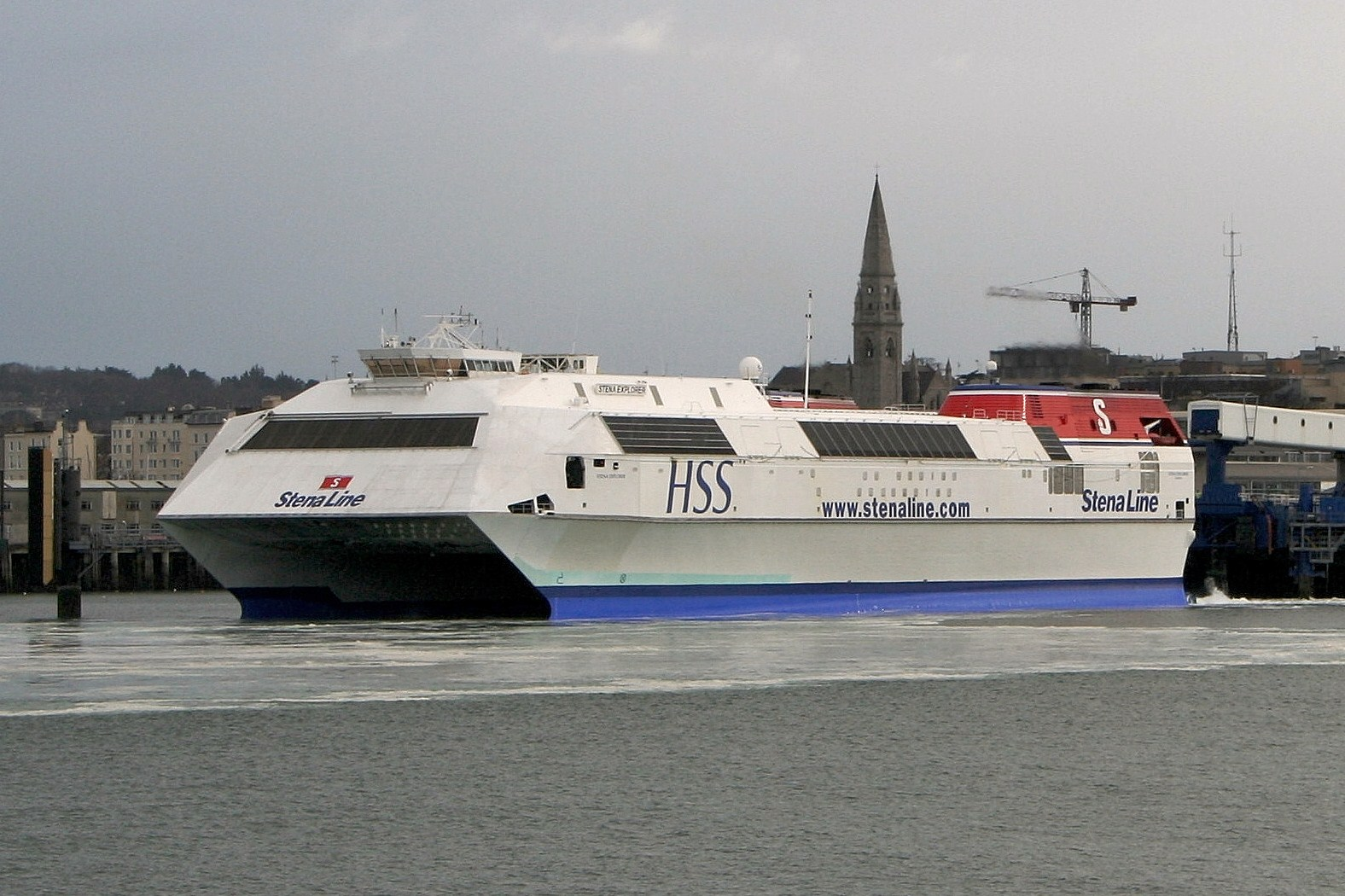 HSS Stena Explorer docking in Dún Laoghaire